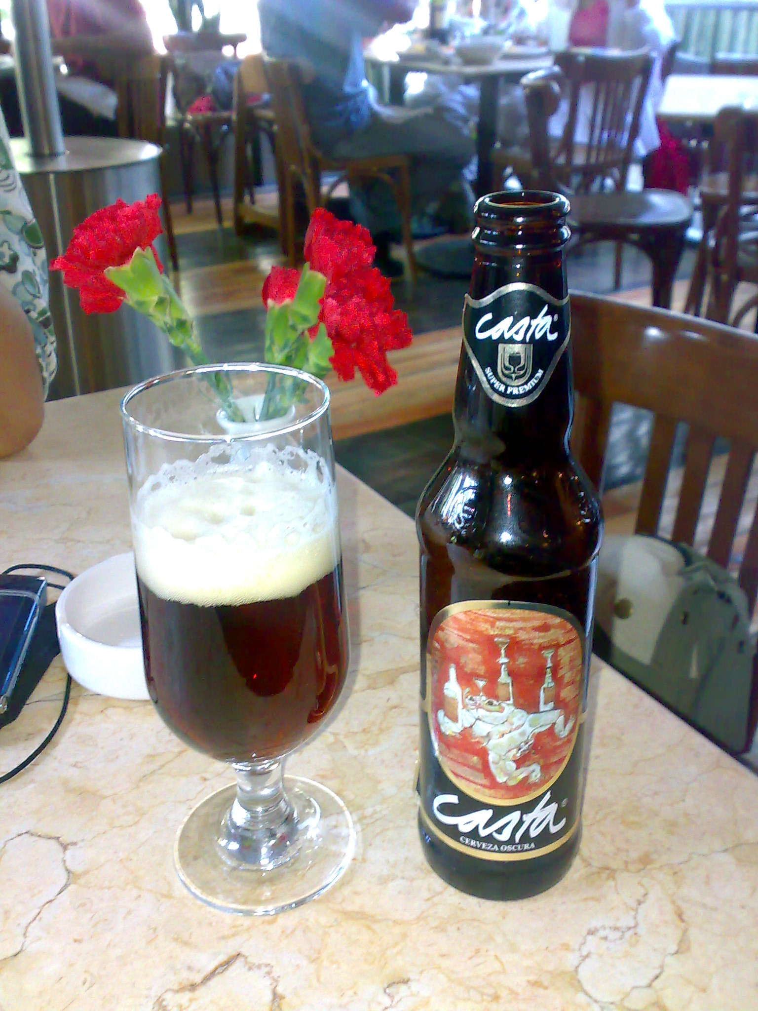 Casta beer. Picture taken by me.